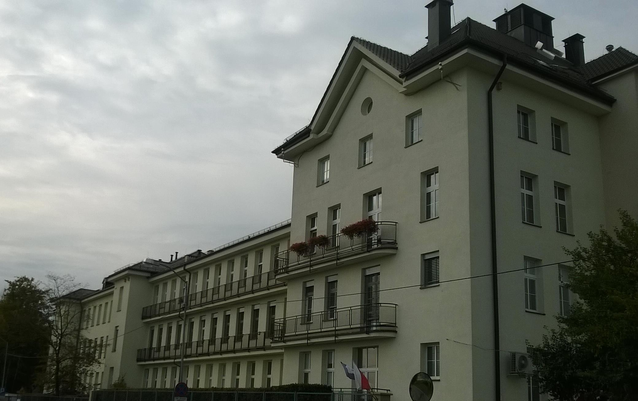 Pomeranian Medical University in Szczecin, Hospital of Pediatrics No 1